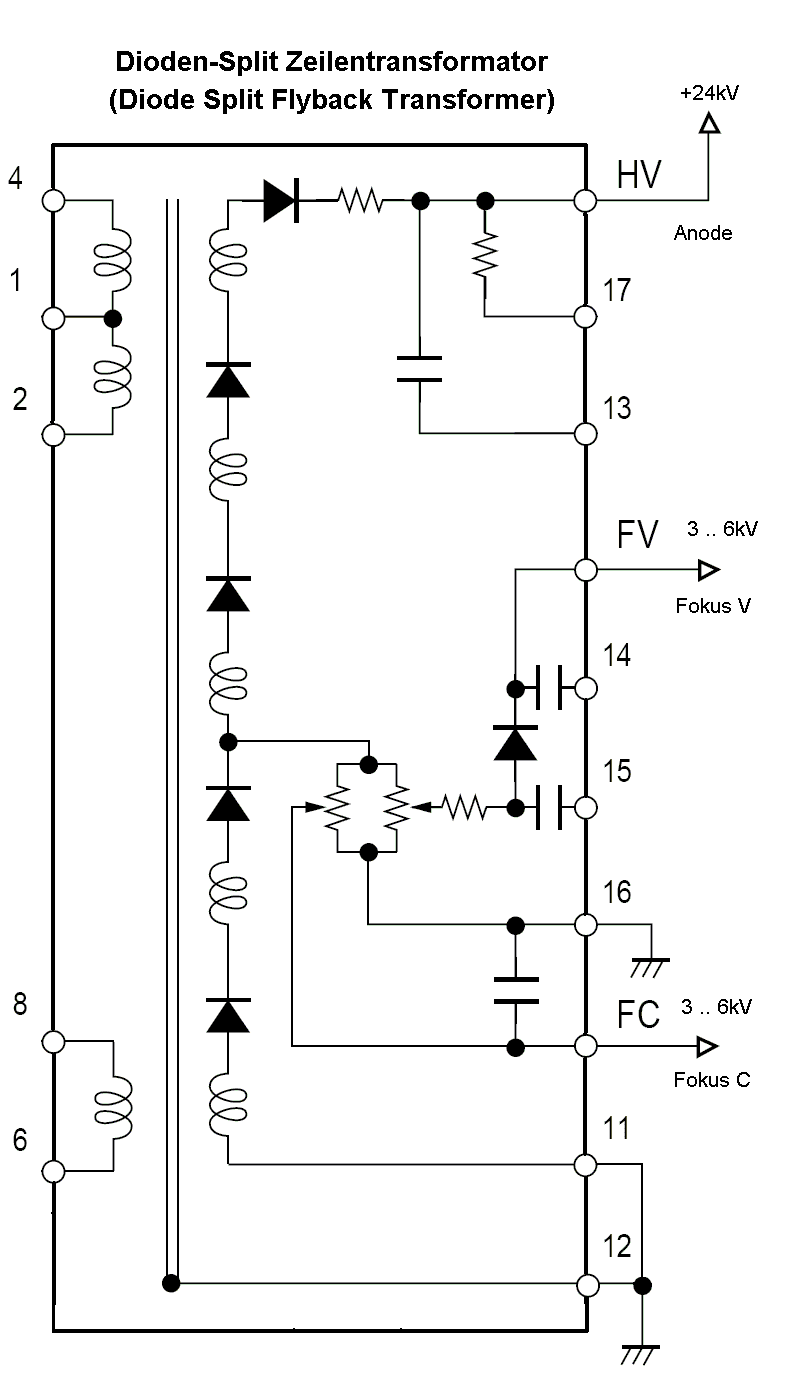 Diode Split Flyback Transformer